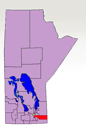 Boundaries of the La Verendrye electoral district for 1999 highlighted in red